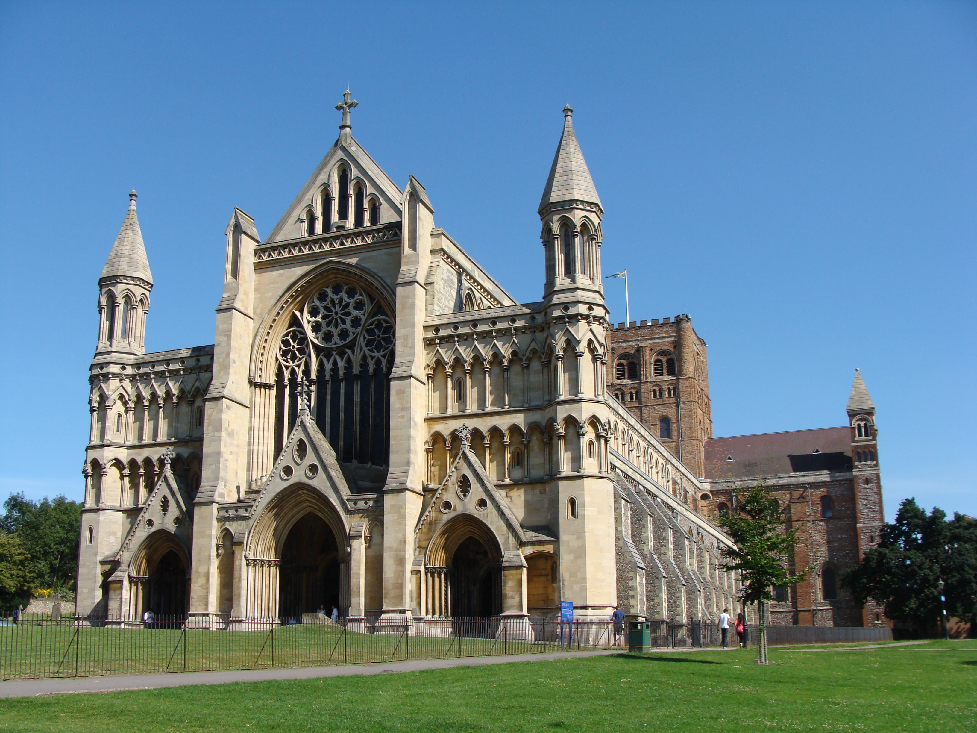 Cathedral and Abbey Church of St Alban, St Albans, Hertfordshire, UK